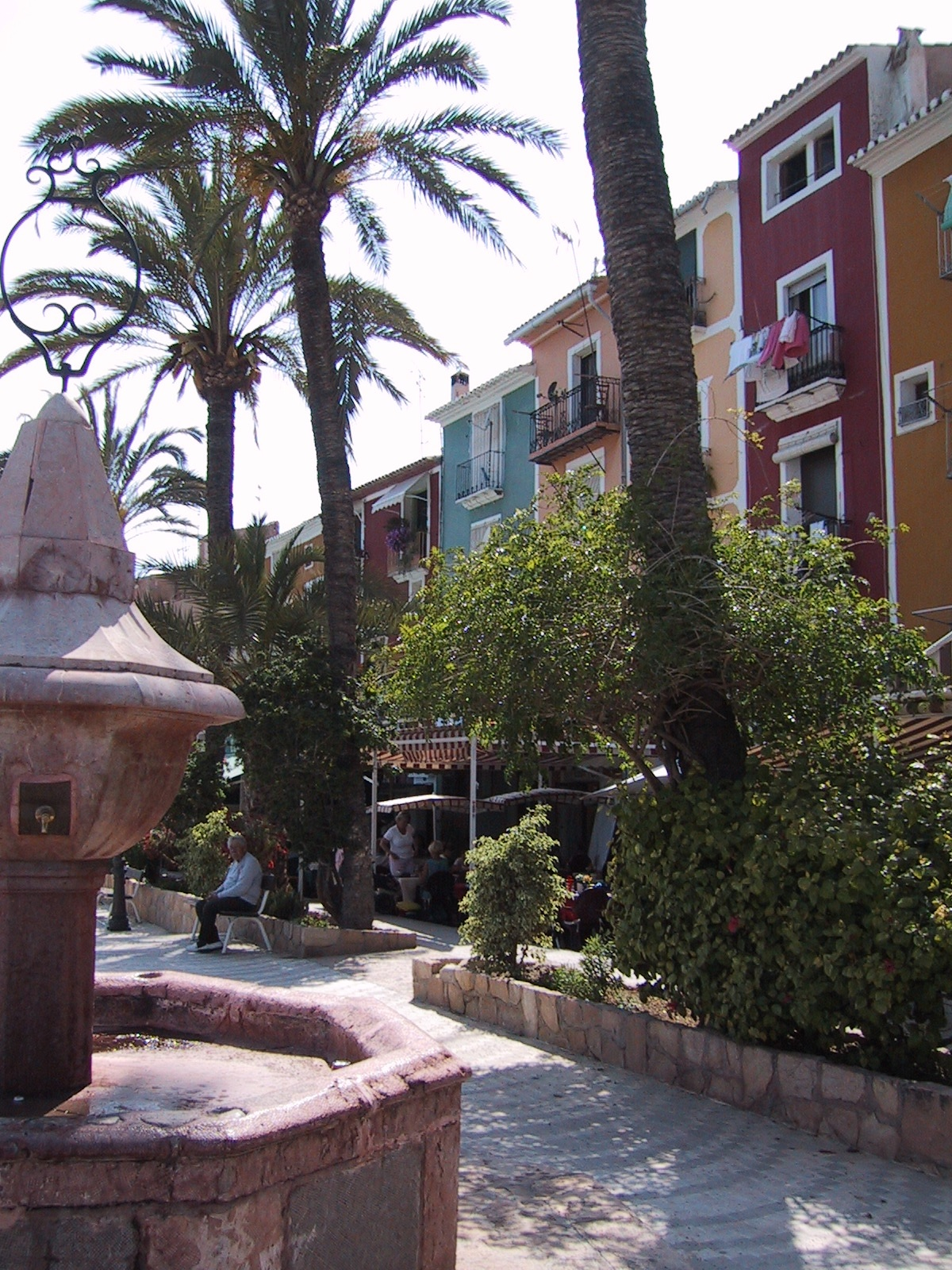 Characteristic houses along the boulevard of Villajoyosa.